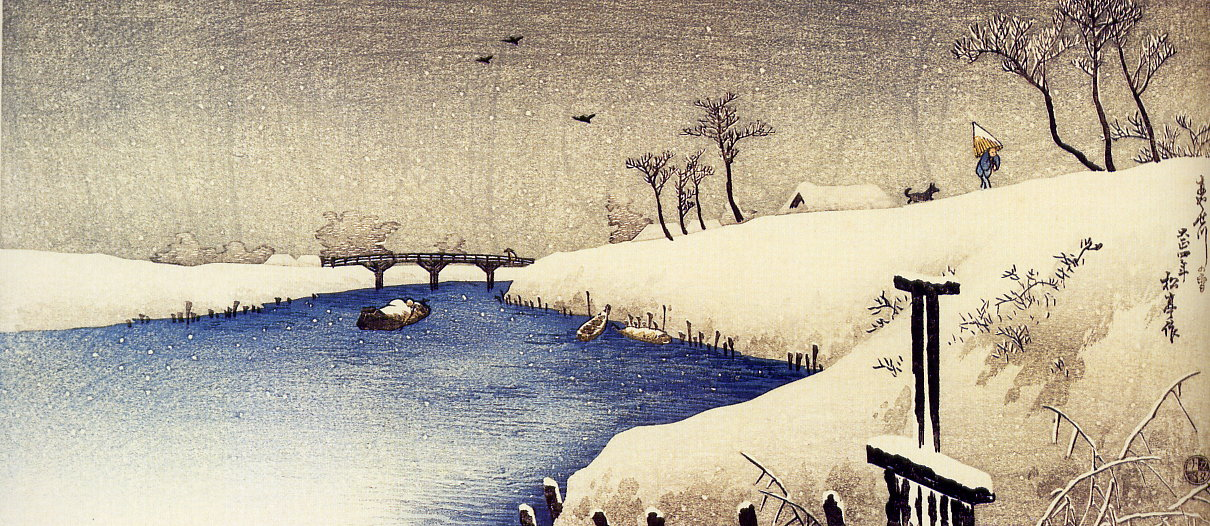 Takahashi Hiroshi: Snow in Ayase river, 1915.